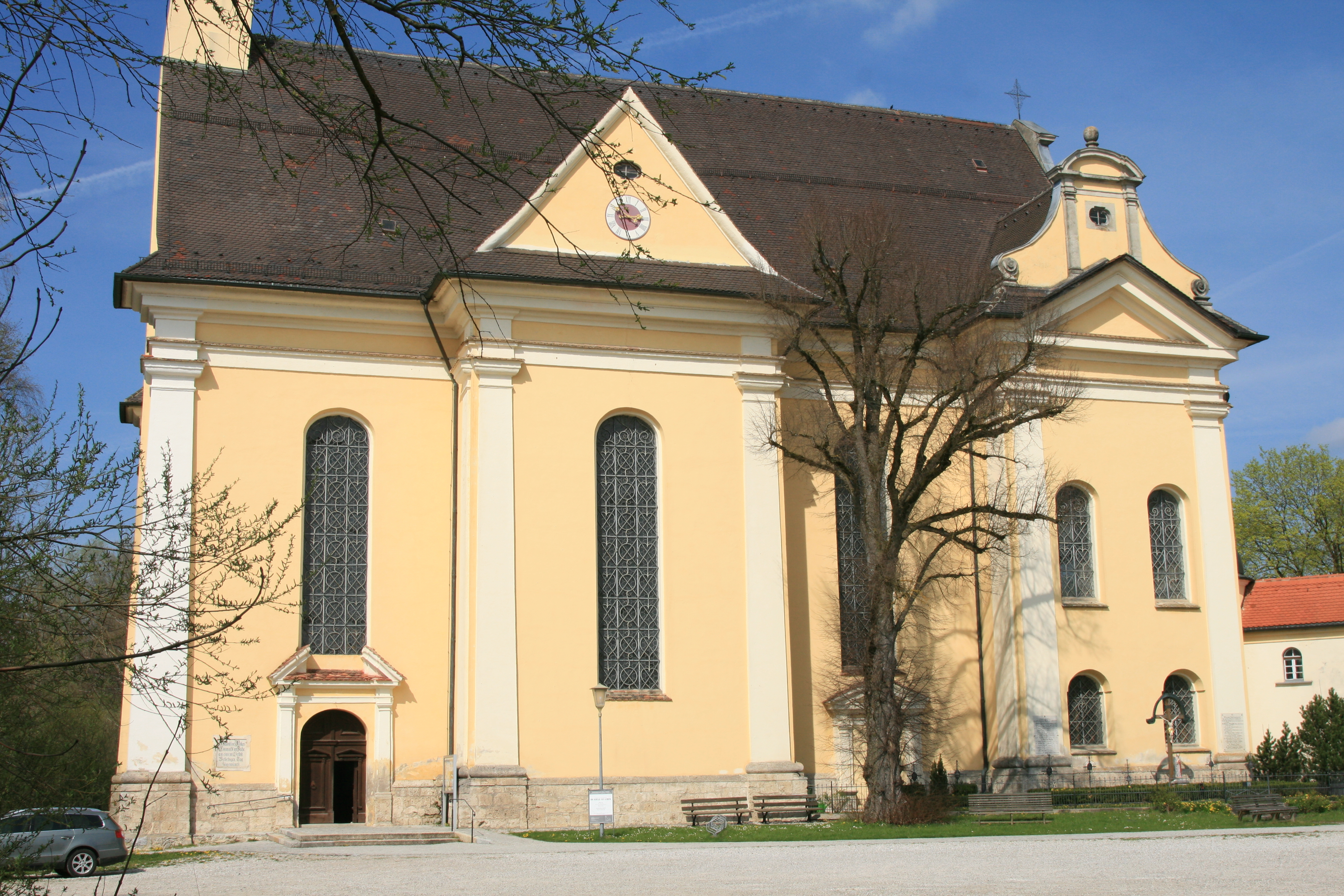 Church St. Rasso situated in Grafrath, Upper Bavaria, Germany